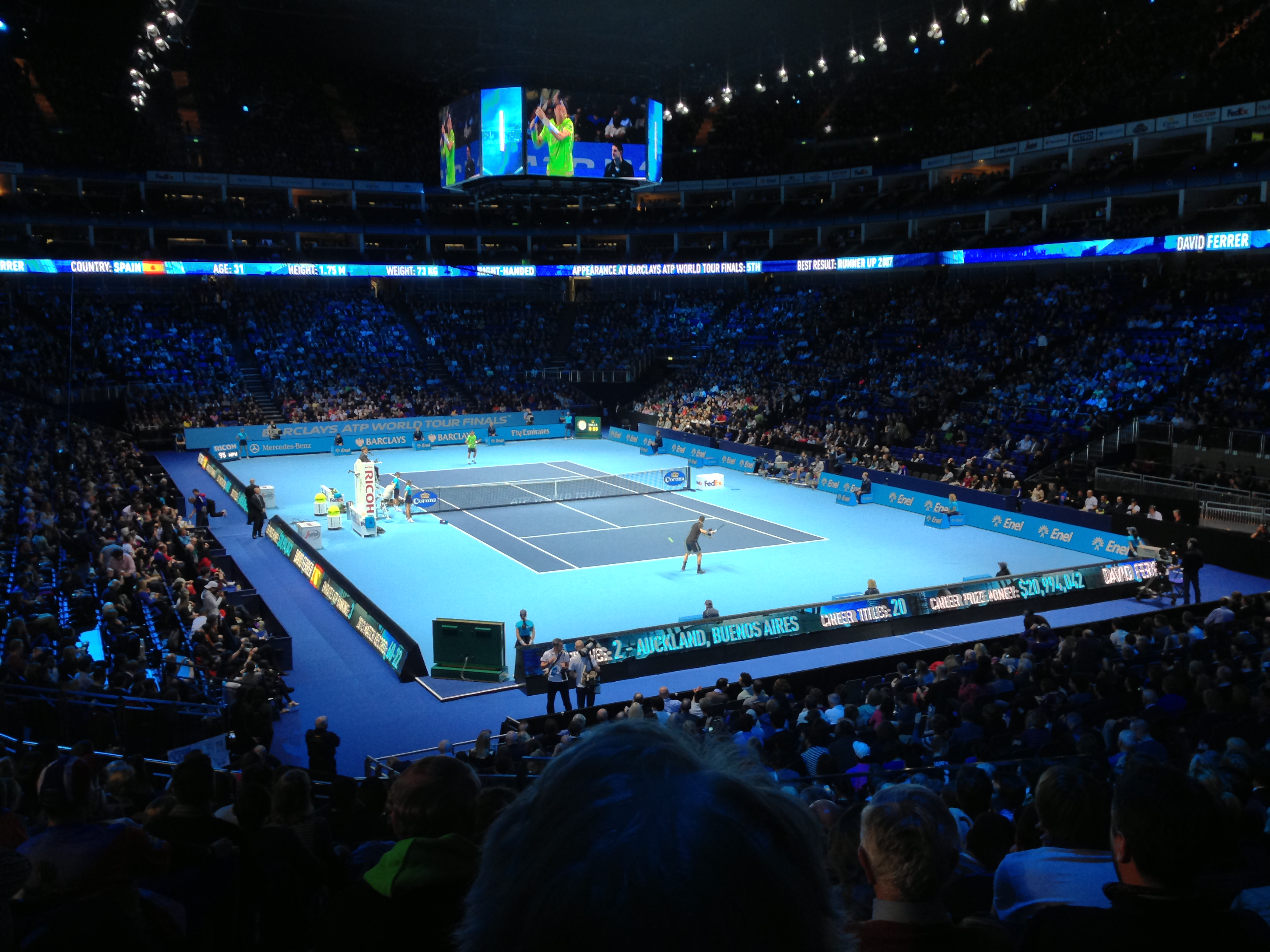 Round Robin match between Berdych and Ferrer in the 2013 WTF